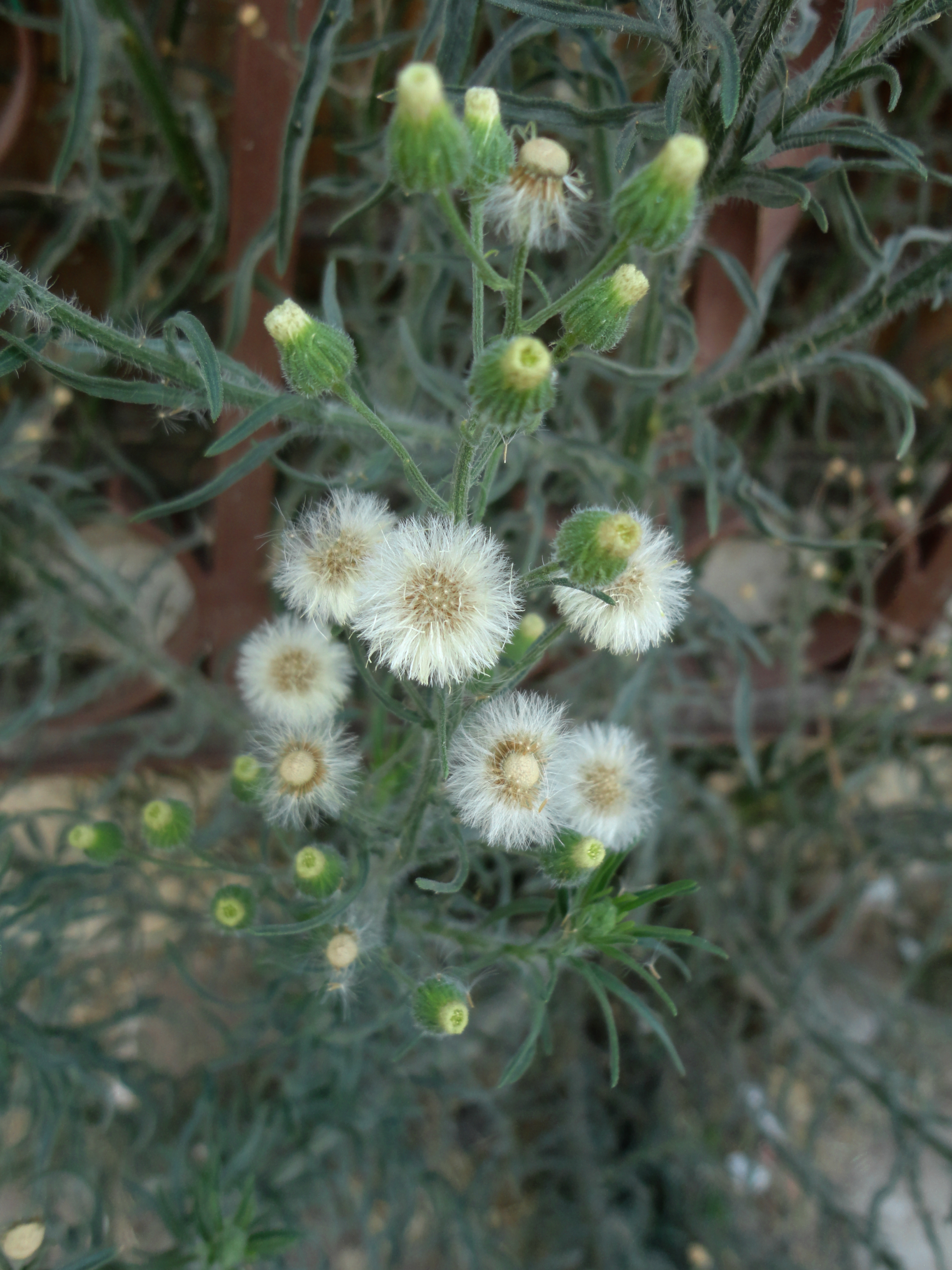 Erigeron bonariensis (Familyː Asteraceae).